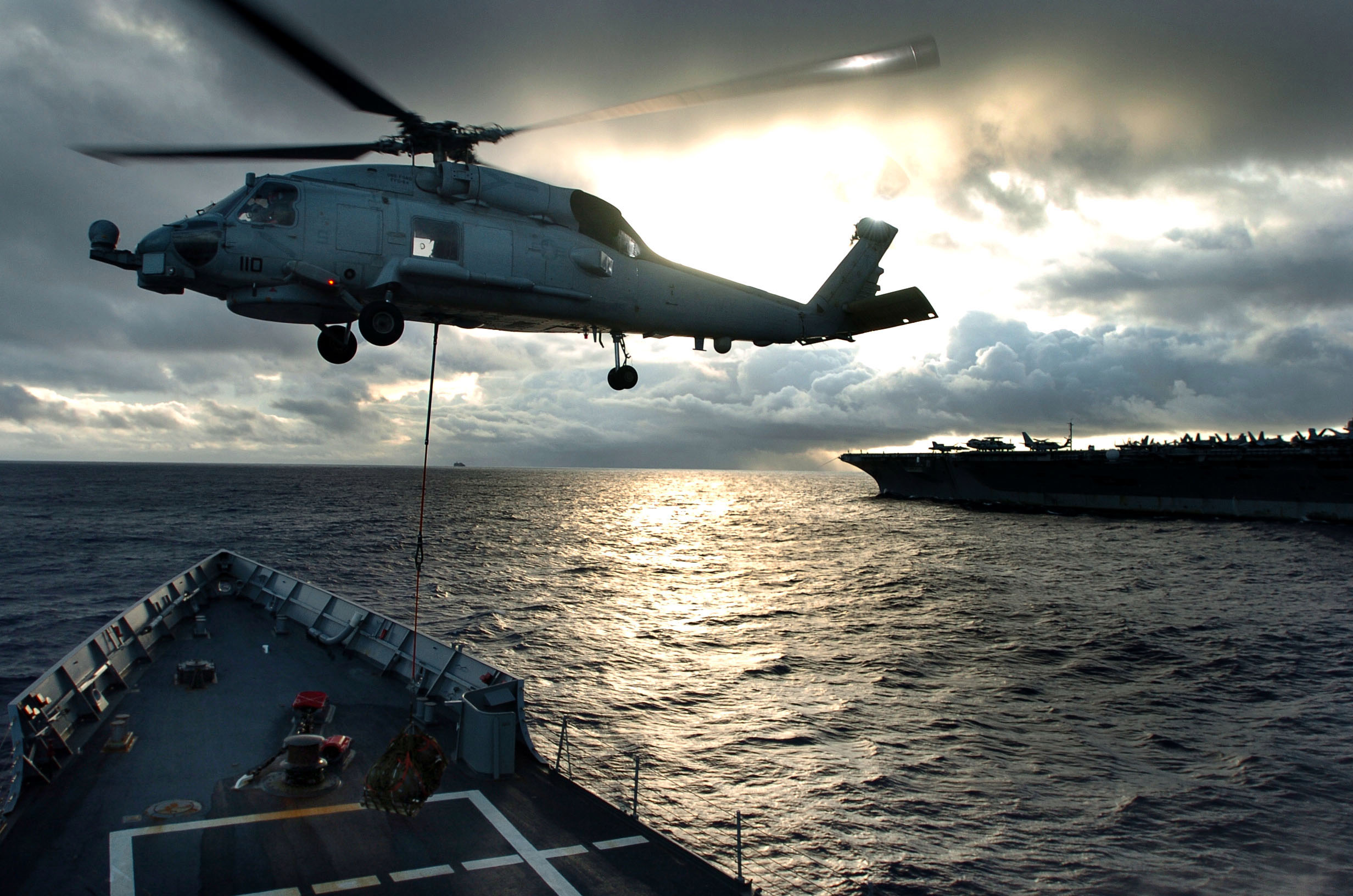 Pacific Ocean (Oct. 18, 2004) - An MH-60R Strikehawk assigned to the "Scorpions" of Helicopter Anti-Submarine Squadron Light Four Nine (HSL-49), picks up cargo aboard the Oliver Hazard Perry-class frigate USS Ford (FFG 54) during a vertical replenishment with the Nimitz class aircraft carrier USS John C. Stennis (CVN-74). Ford and embarked HSL-49 are on a scheduled deployment with Stennis Carrier Strike Group (CSG). U.S. Navy photo by Photographer's Mate 2nd Class Oscar Espinoza (RELEASED)